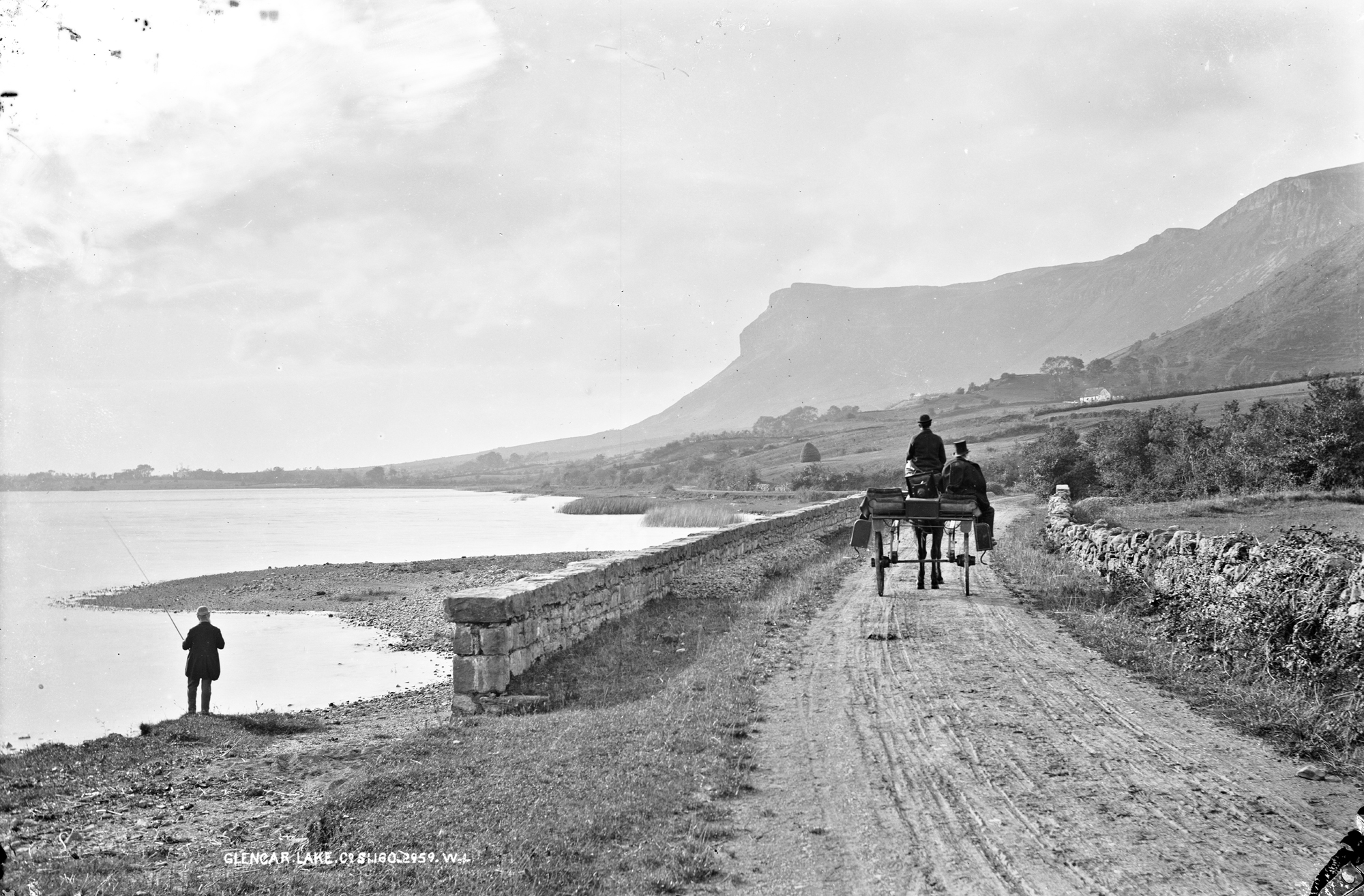 Glencar Lake, Glencar, brings us back once again to the lovely County Leitrim. We appear to have Mr. French's mode of transport parked conveniently as a gentleman fishes nearby! While the label on the slide says Sligo, and the view if clearly of Leitrim, this may be because Mr French was standing in one county while photographing the other. (The suggestion being that he was all but straddling the border between the two). Photographer: Robert French Collection: Lawrence Photograph Collection Date: Catalogue range c.1865-1914 NLI Ref: L_CAB_02959 You can also view this image, and many thousands of others, on the NLI’s catalogue at